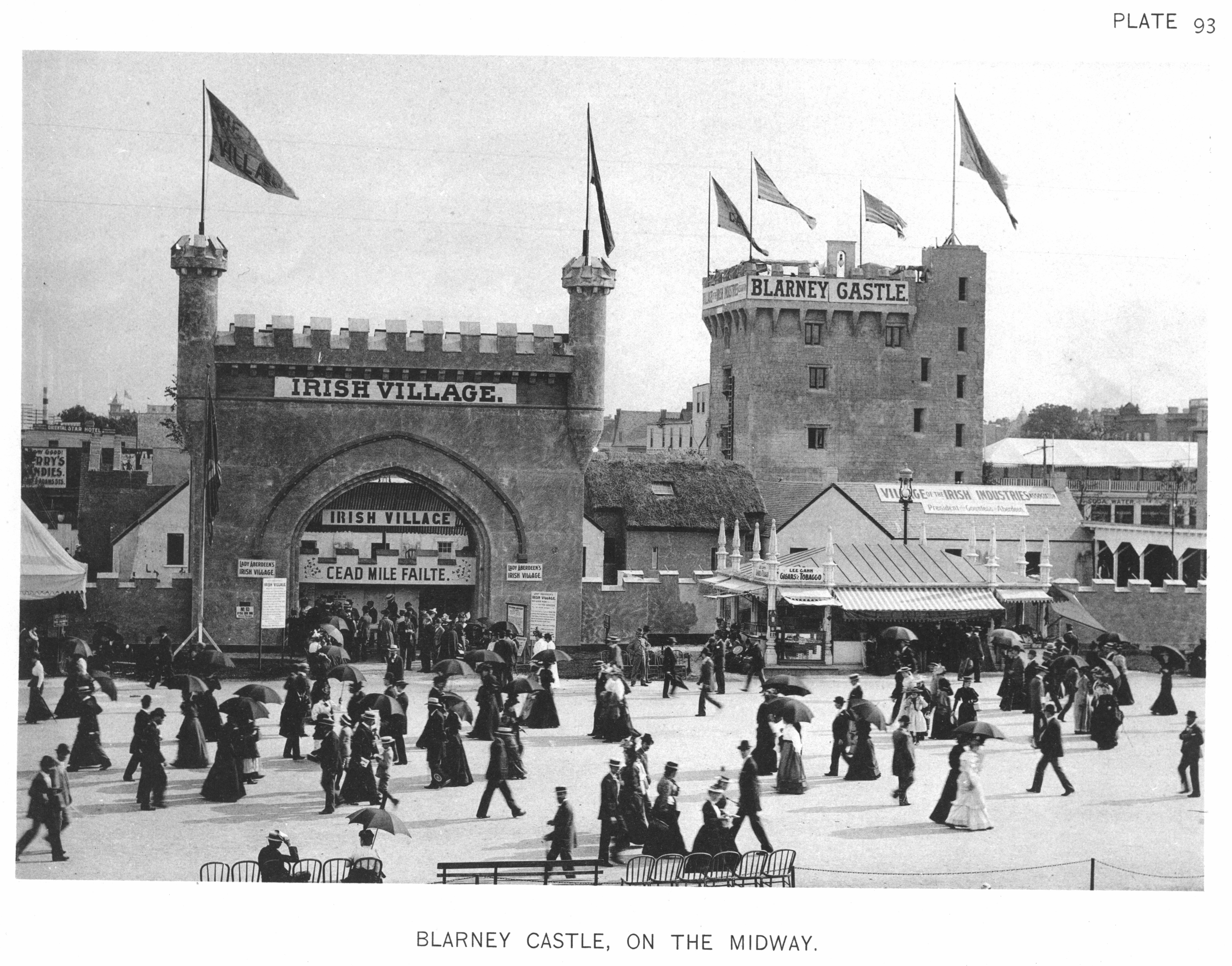 Official Views Of The World's Columbian Exposition: Blarney Castle, On The Midway [part of the Village of the Irish Industries Association].